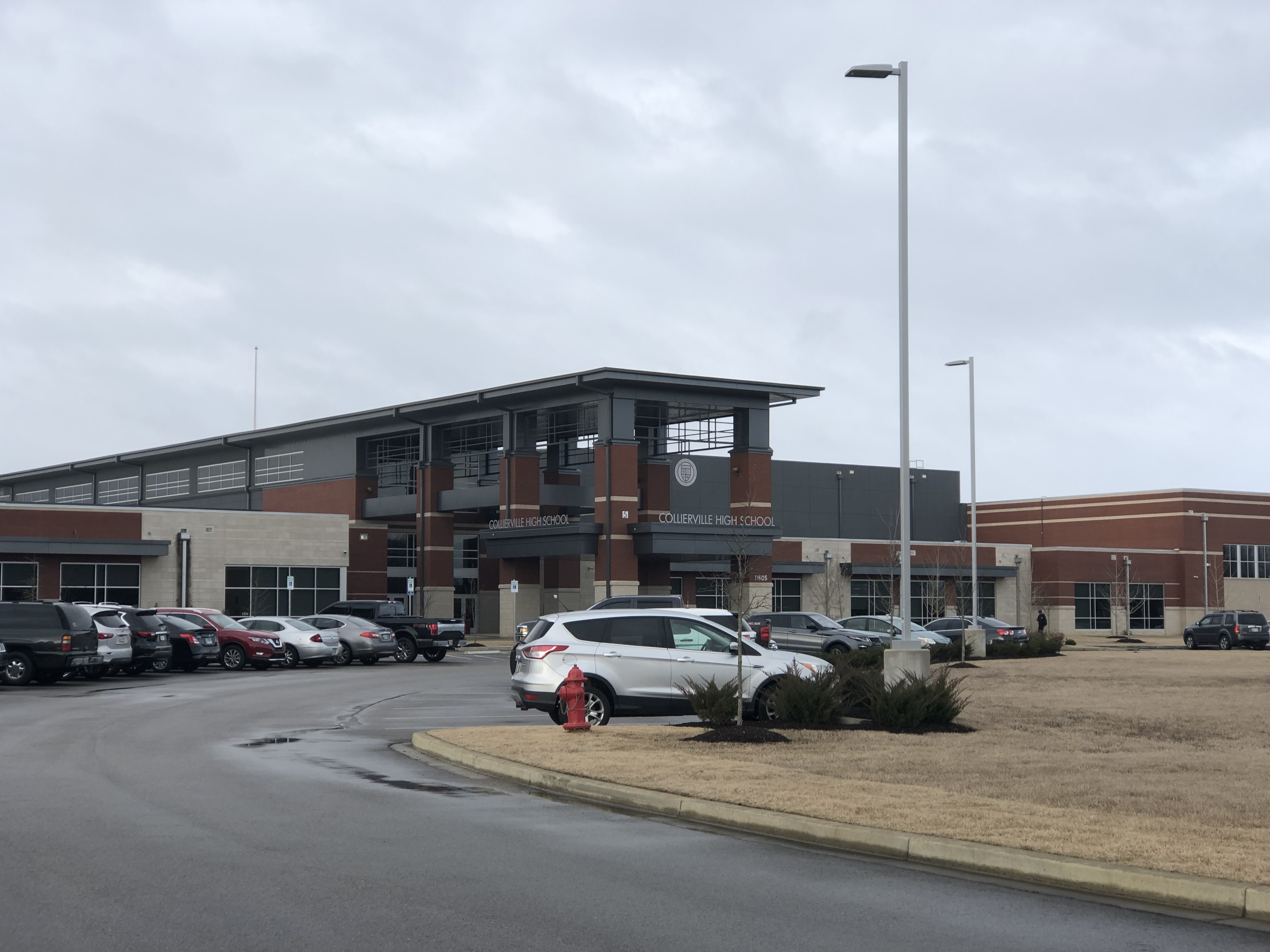 A self-taken picture of CHS’s Shelby Drive campus.